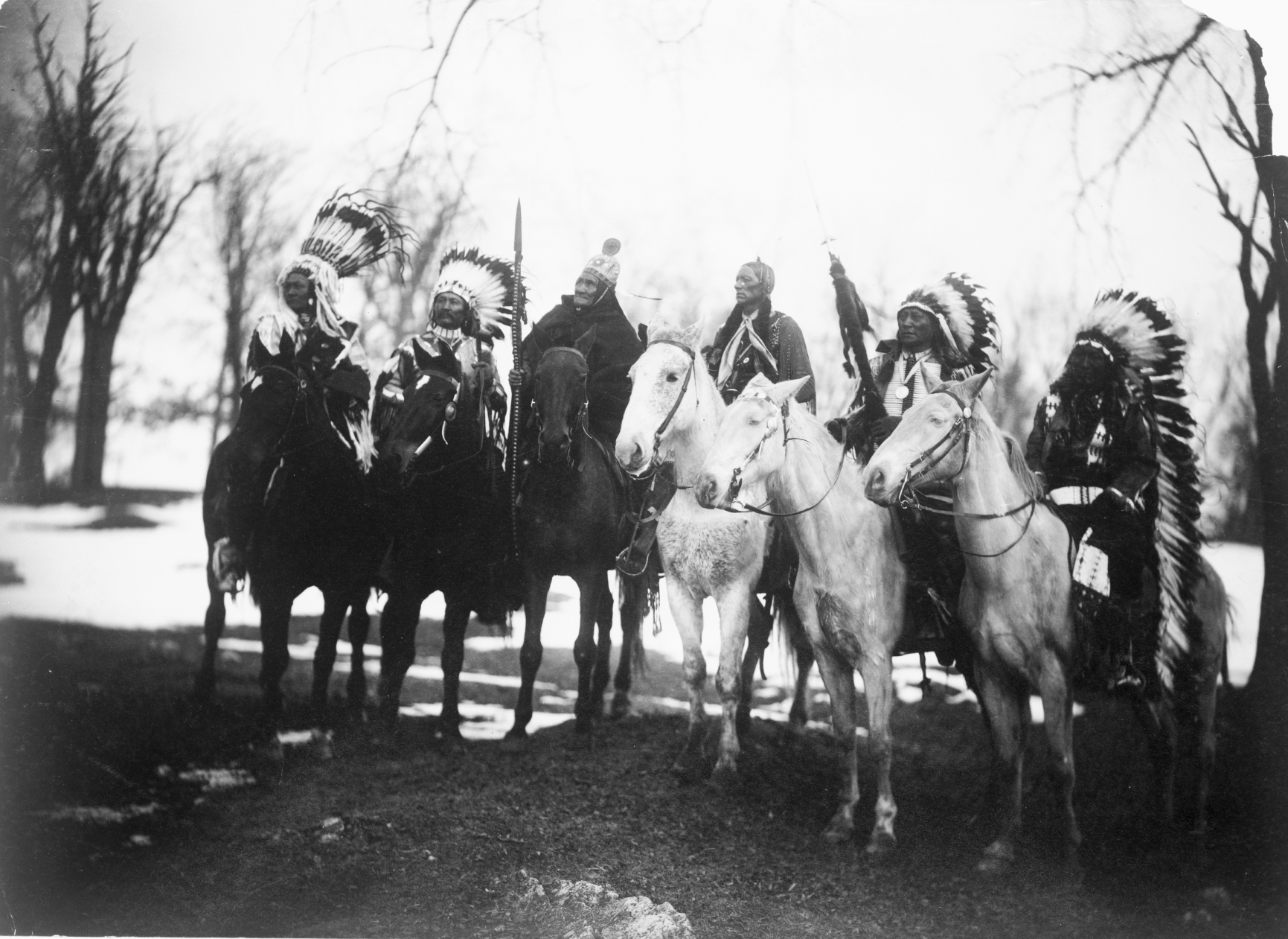 Six tribal leaders (l to r) Little Plume (Piegan), Buckskin Charley (Ute), Geronimo (Chiricahua Apache), Quanah Parker (Comanche), Hollow Horn Bear (Brulé Sioux), and American Horse (Oglala Sioux) on horseback in ceremonial attire